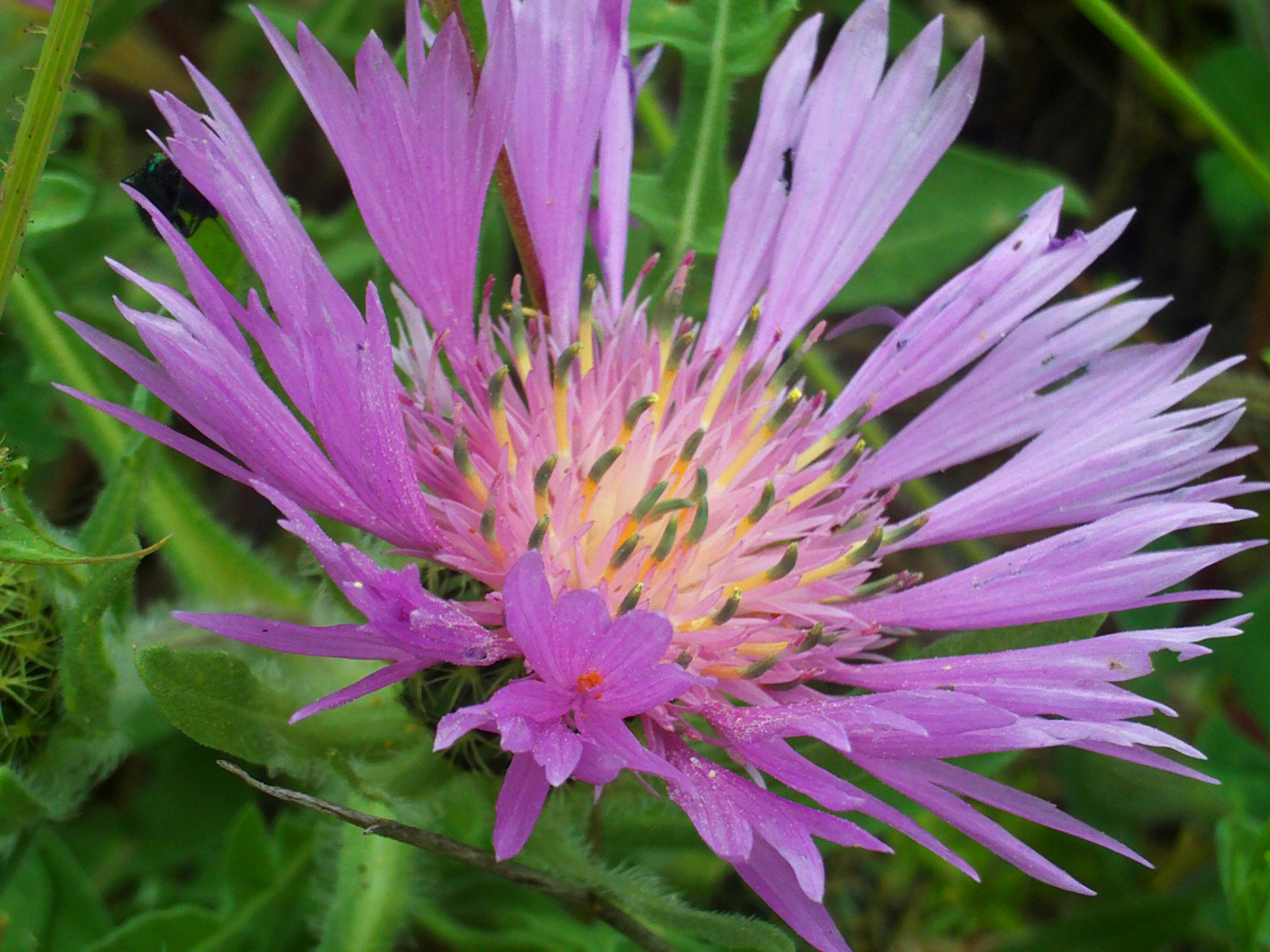 Centaurea pullata inflorescence close up, Cañada de Calatrava, Campo de Calatrava, Spain